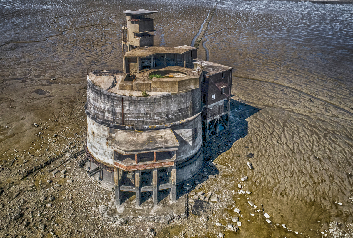 Aerial view of the abandoned Grain Tower Battery off the Isle of Grain, Hoo peninsula, Essex.